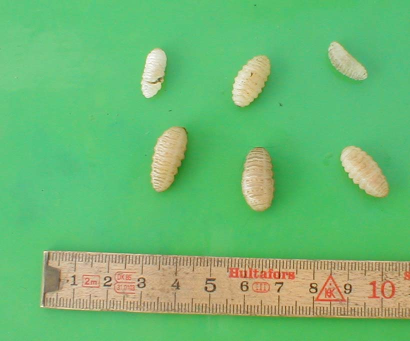 young warbles (Morocco, 2005)